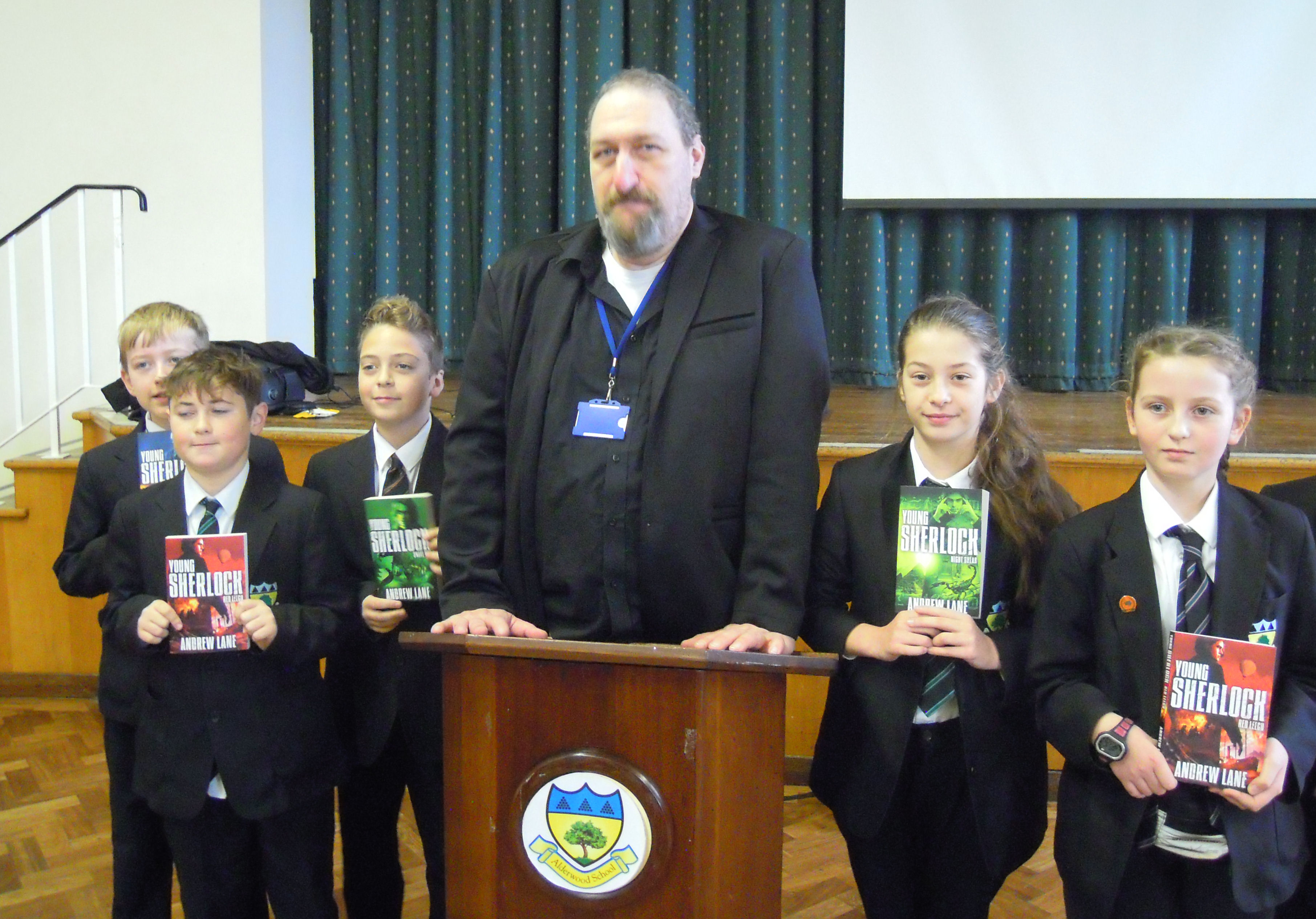 Author Andrew Lane meeting students of Alderwood School in Aldershot in Hampshire in December 2018